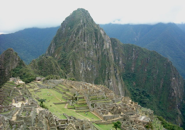 Picture of Machu Picchu taken in the morning.